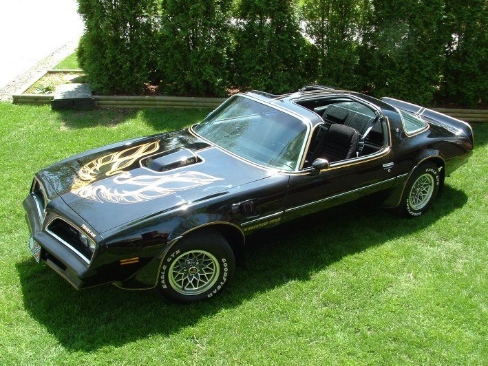 A black 1978 Firebird Trans-Am. Owned by "Hitman".